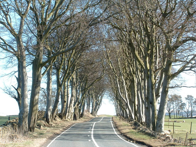 Beech Trees Taken looking north on the A70, the small cottage behind me to my right is called "Beeches".